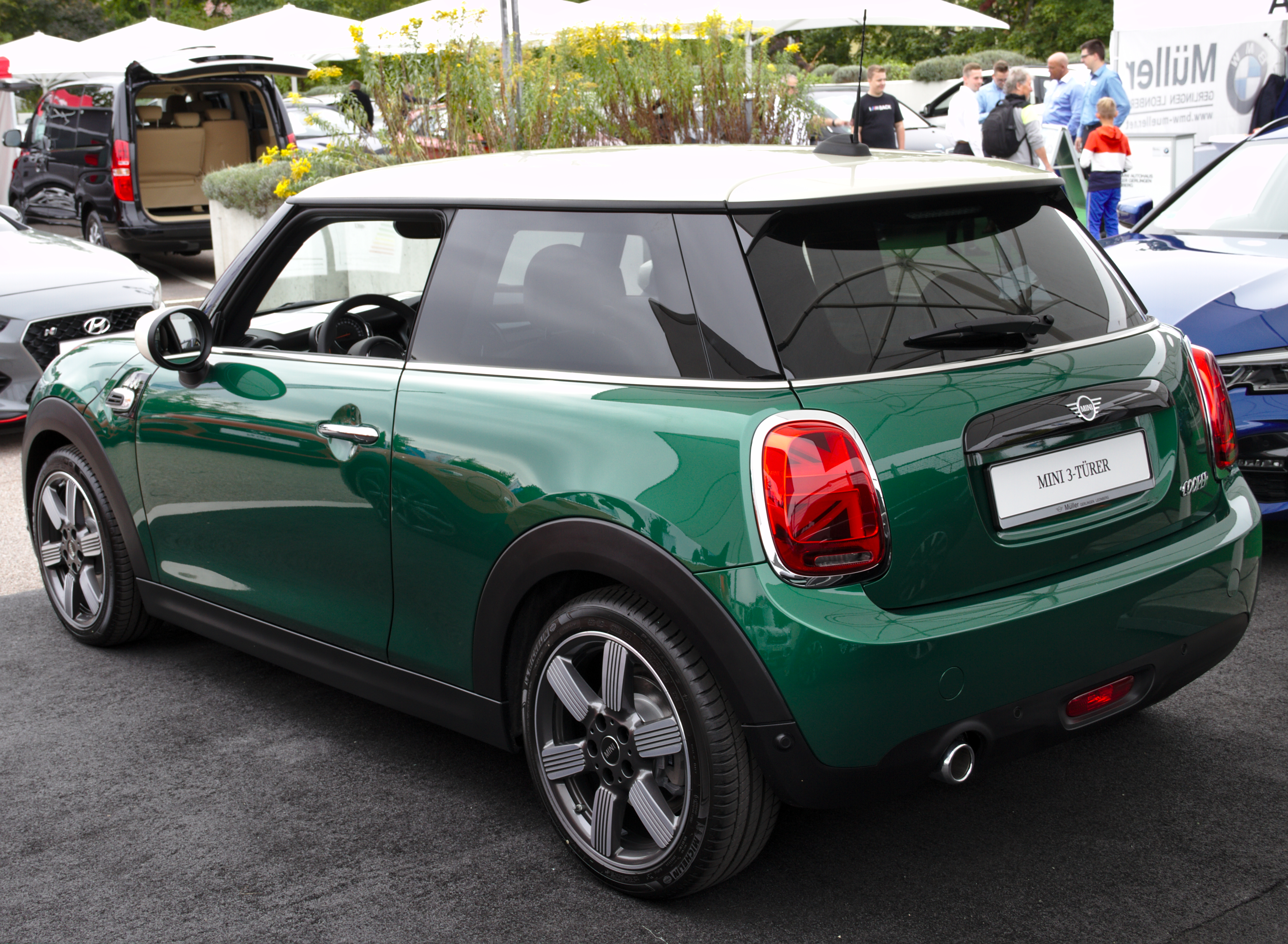 Mini_60_Years_Edition at Leonberger Autoschau 2019